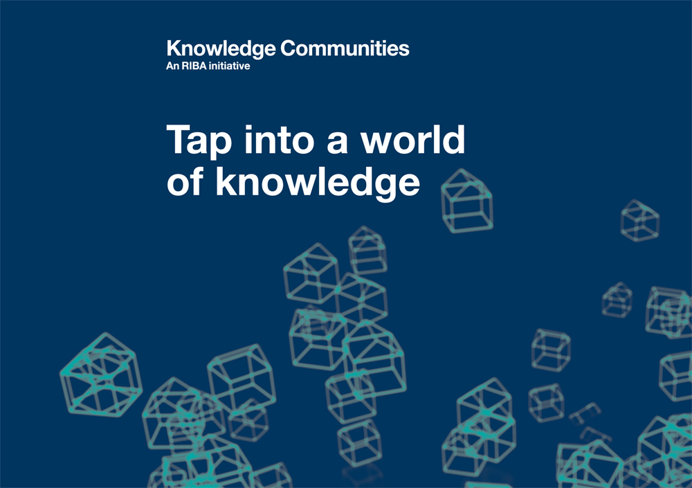 RIBA Knowledge Communities front image